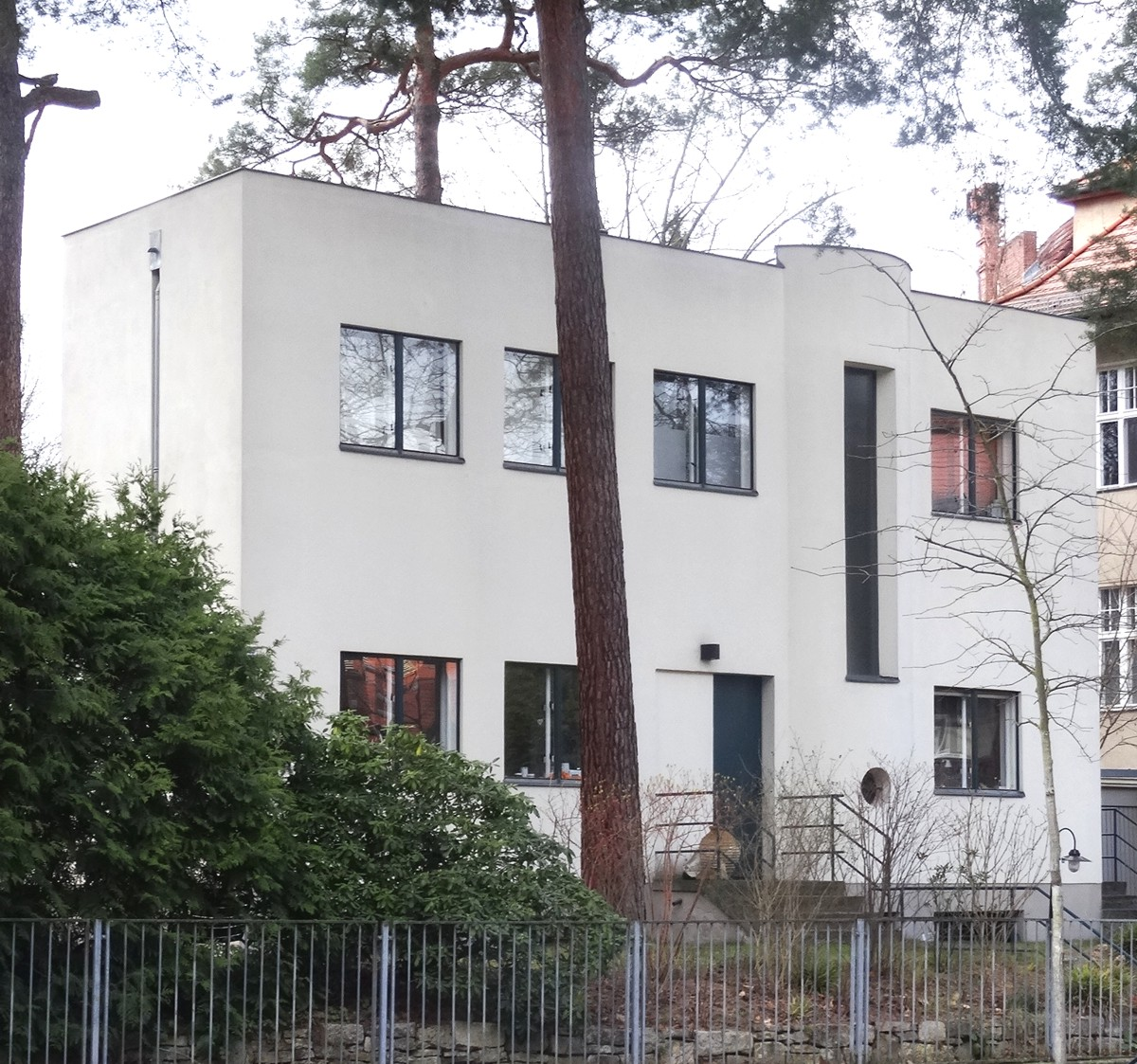 Arthur Korn, Residence Dr. Abraham, state in 2015